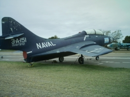 A Grumman TF-9J Cougar on display at the Naval Aviation Museum of Argentina, Bahia Blanca, Argentina. The aircraft was delivered the the U.S. Navy as F9F-8T BuNo 142463 in 1957. It was acquired by the Argentine Navy in 1960 as a trainer for pilots flying the F9F-2B Panther. It was delivered to Naval Air Station Norfolk (Virginia), where he completed acceptance flights. During one of these flights, the 30 March 1961, Lieutenant Commander Raphael Serra broke the sound barrier. It was brought to Argentina aboard the aircraft carrier ARA Independencia (V-1) and arrived at the port of Buenos Aires on 24 May 1962. The plane was assigned to the 1st Naval Air Squadron as "0516/3-A-151" and made its last flight on 9 June 1971, piloted by Lieutenant Edward Alimonda. It was then located as Gate Guard in front of the Freedom Building (seat of Commander in chief of the Argentine Navy) until 1988, when he was transferred to the Naval Aviation Museum Argentina. Currently it is on display at the aircraft park.